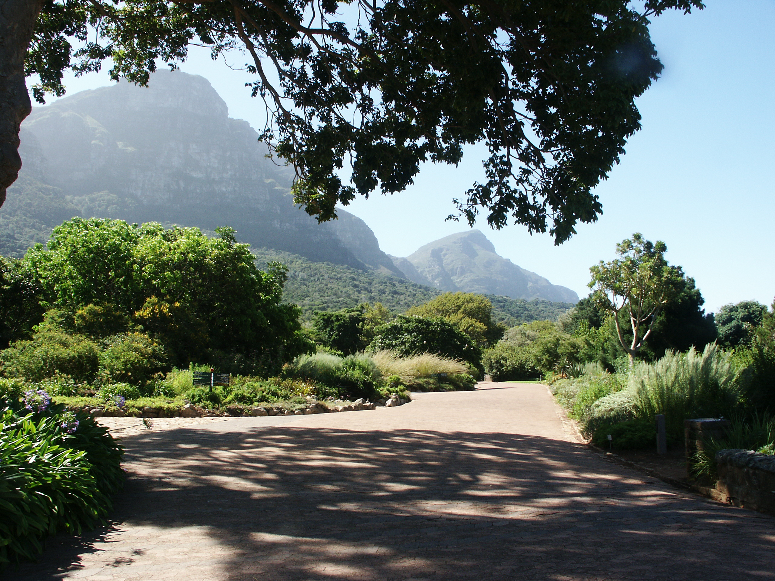 Kirstenbosch Botanical Garden, Cape Town, South Africa. View towards the eastern slope of Table mountain.